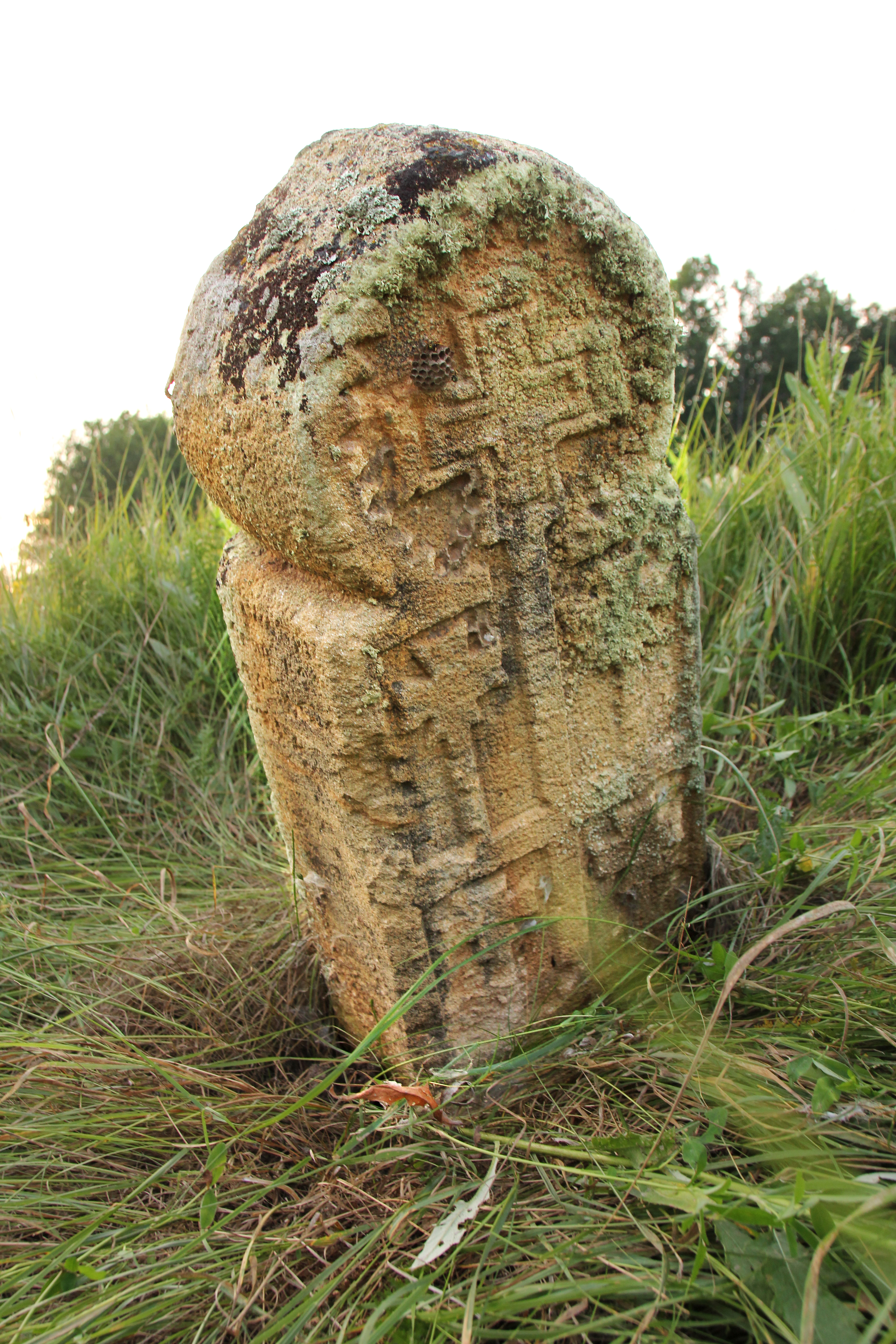 Lonely gravestone at the Jevdjevina site in the village of Drenova (the municipality of Gornji Milanovac), Serbia.